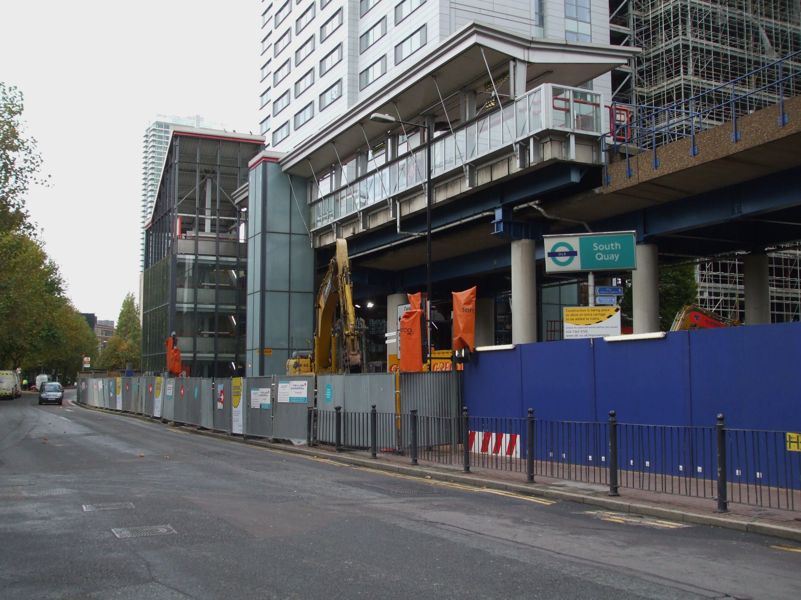 The old South Quay DLR station building, 200 m west of the new station, which opened just a day before this shot was taken. The old station closed on 23rd October 2009, the new station opening on 26th October.